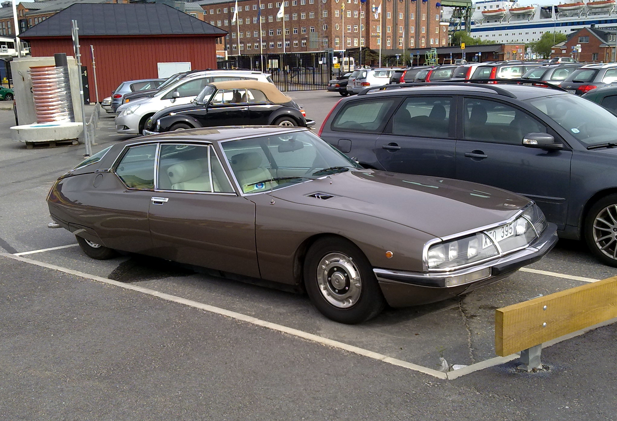 Citroen SM parked in Stockholm, Sweden, near the port